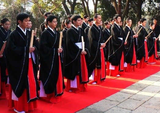 Men and women in xuanduan (玄端), possibly a Guanli ceremony. It has be cropped from the original.